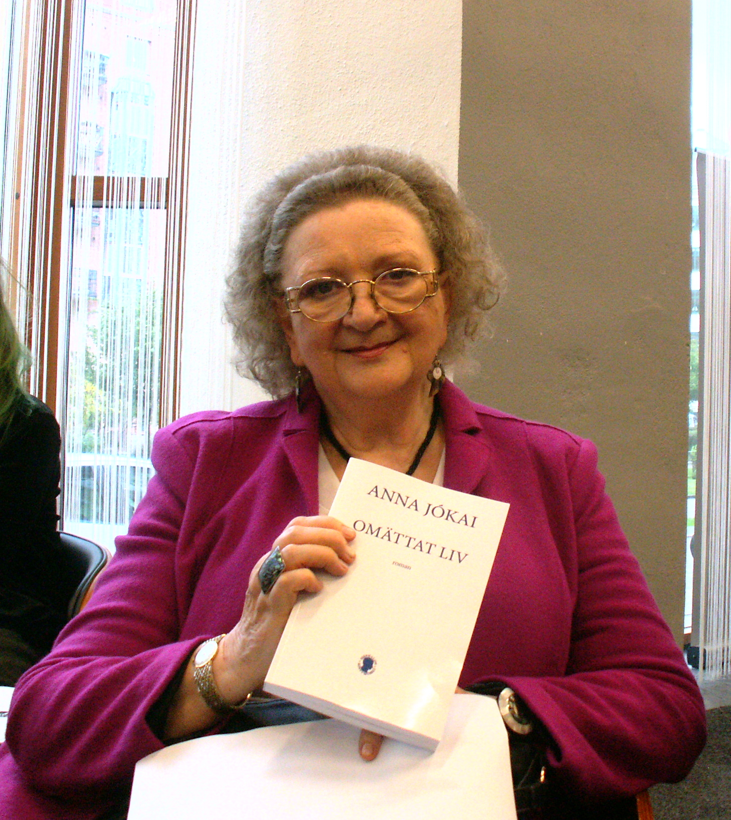 Anna Jókai at the Göteborg Book Fair.